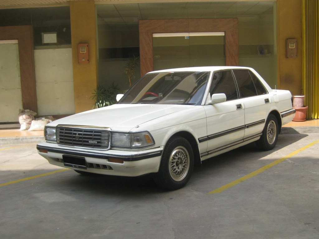 Toyota Crown 2.0i Super Saloon (GS131), photographed in Jakarta, Indonesia.